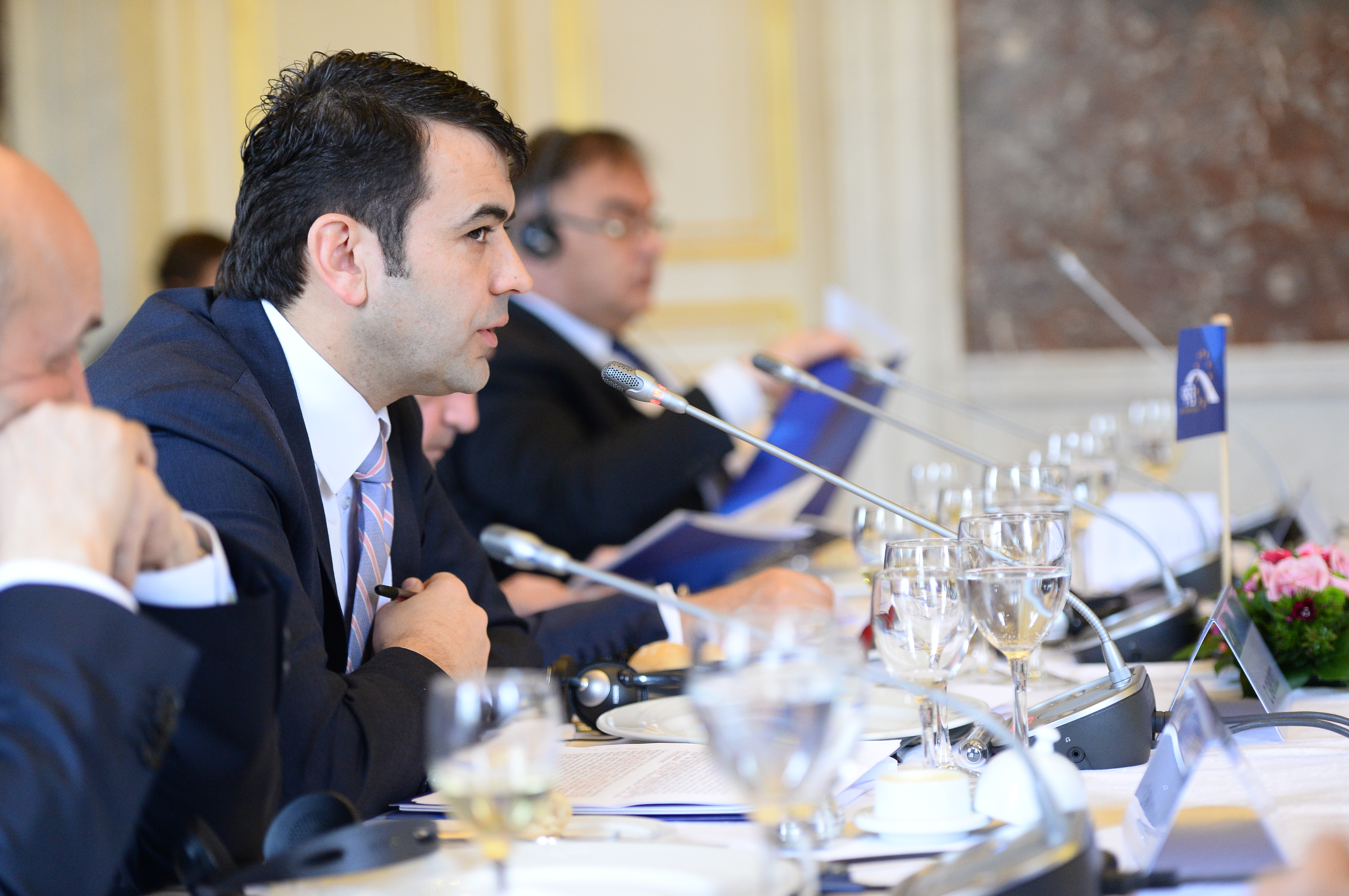 Chiril Gaburici at EPP Summit, March 2015, Brussels